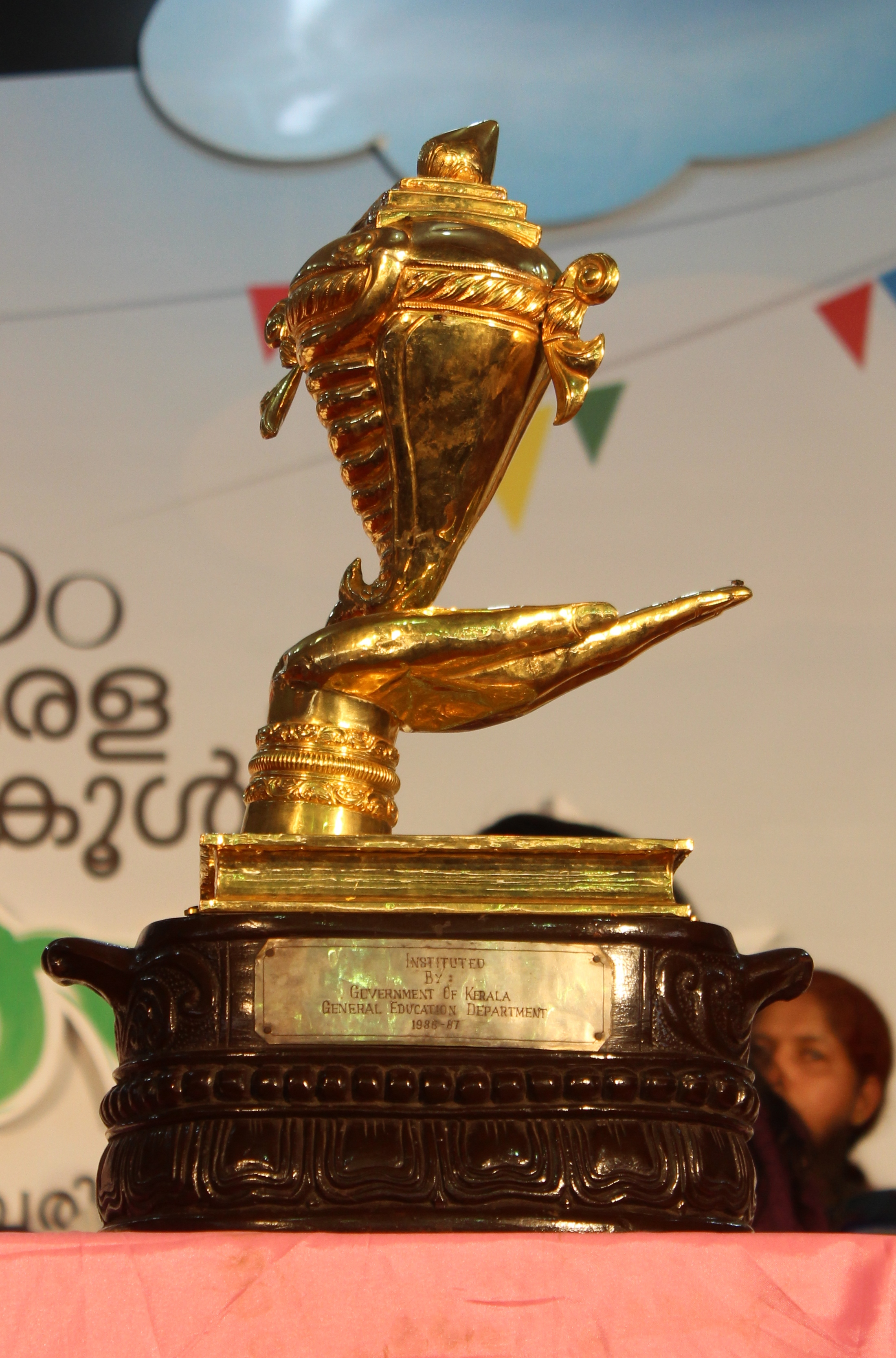 117.5 Golden cup for winner of school youth festival